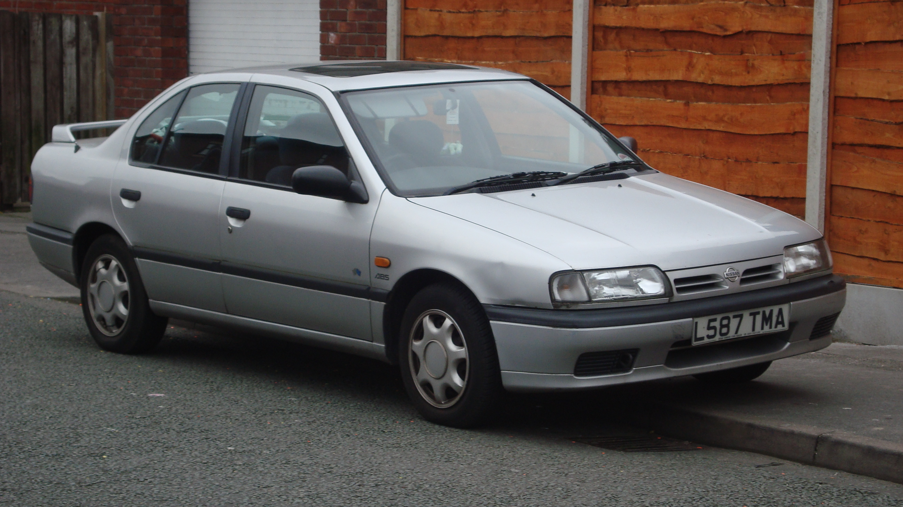 Finally got around to photographing this one, I saw the 'circuit' sticker on the back and assumed it was just something the owner had put on but according to cartell it is, must have been a limited edition